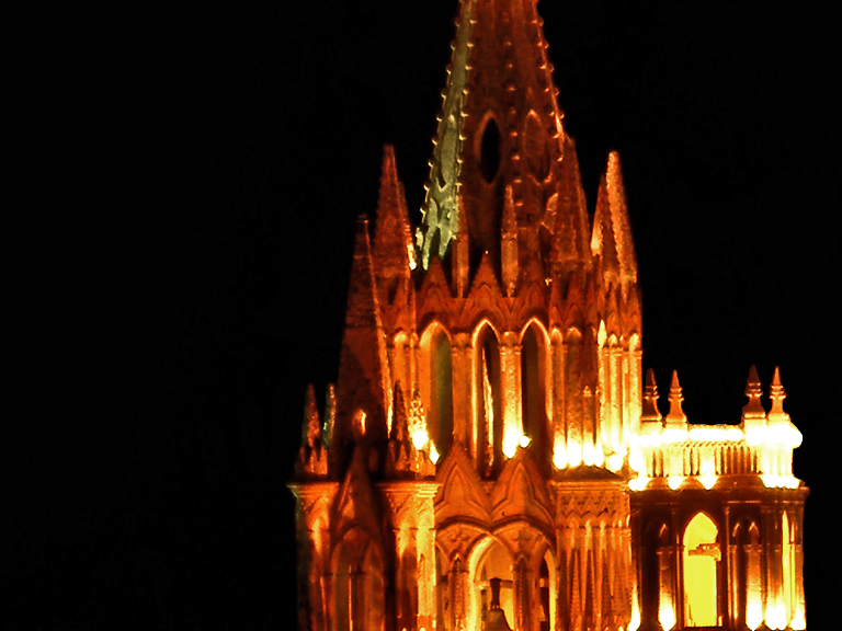 Parroquia in San Miguel de Allende in the state of Guanajuato, Mexico